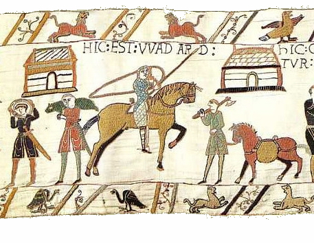 Bayeux Tapestry. Scene 41